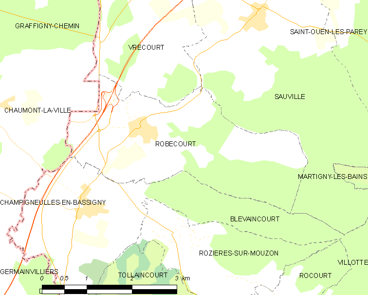 Map of French municipality Robécourt